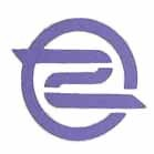 Tanagura Fukushima chapter